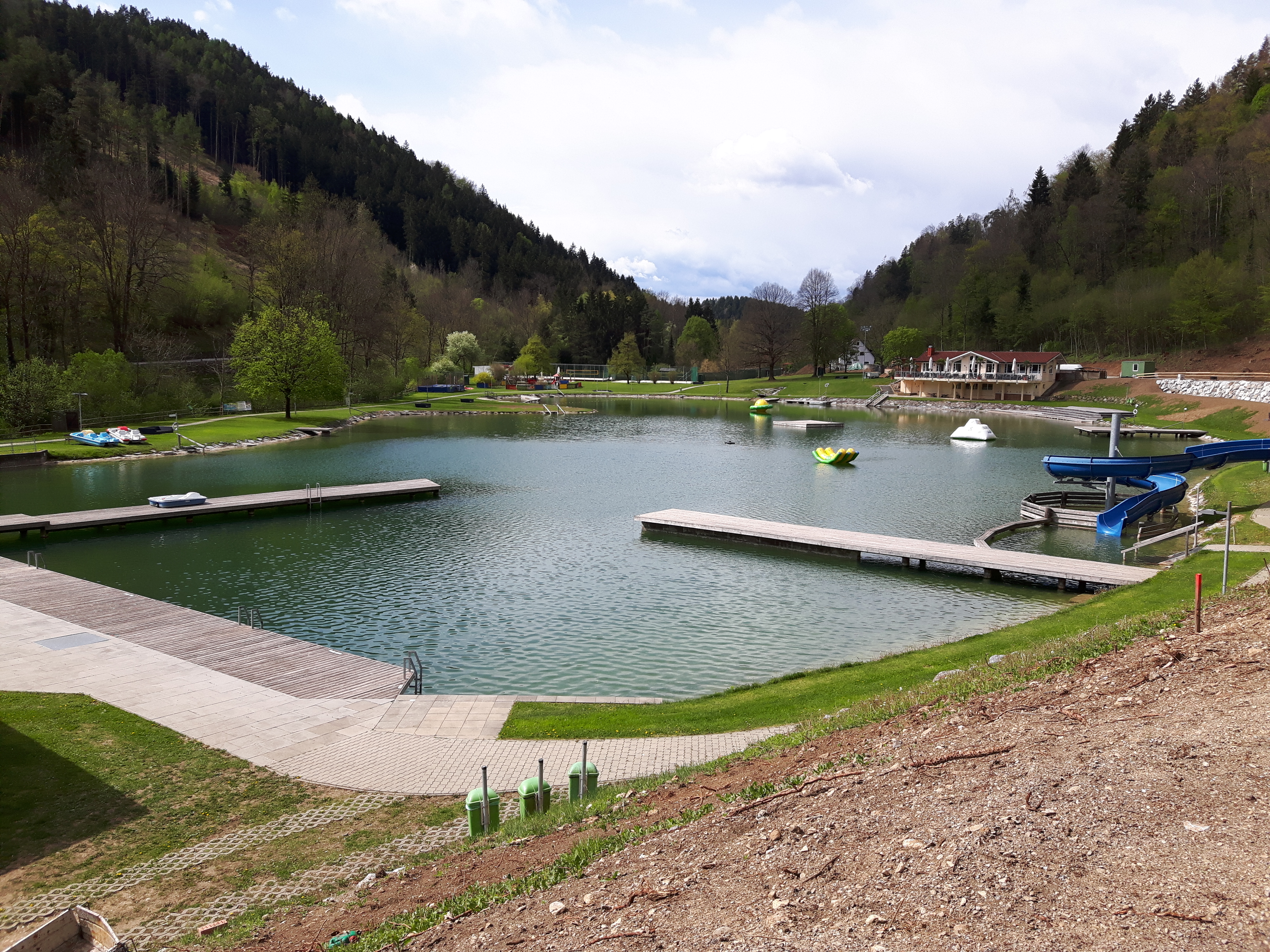 The natural swimming pond of the Bad Weihermühle west of Gratwein, Gratwein-Straßengel, Styria